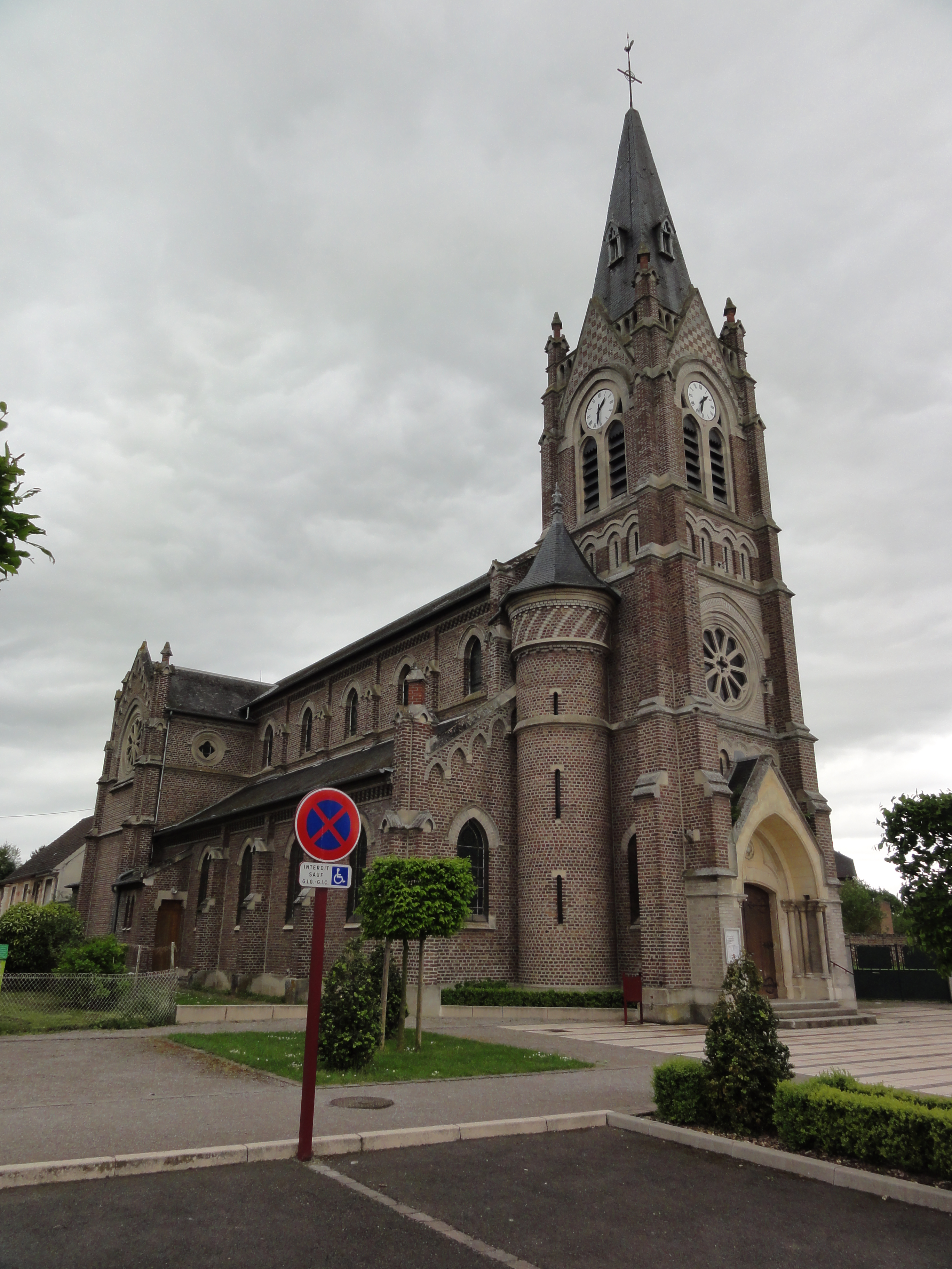 Charmes (Aisne) église